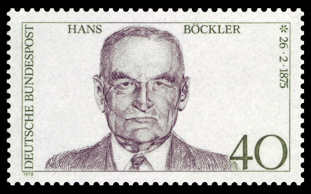 100th day of birth of Hans Böckler (1875–1951) Ausgabepreis: 40 Pfennig First Day of Issue / Erstausgabetag: 14. Februar 1975 Michel-Katalog-Nr: 832